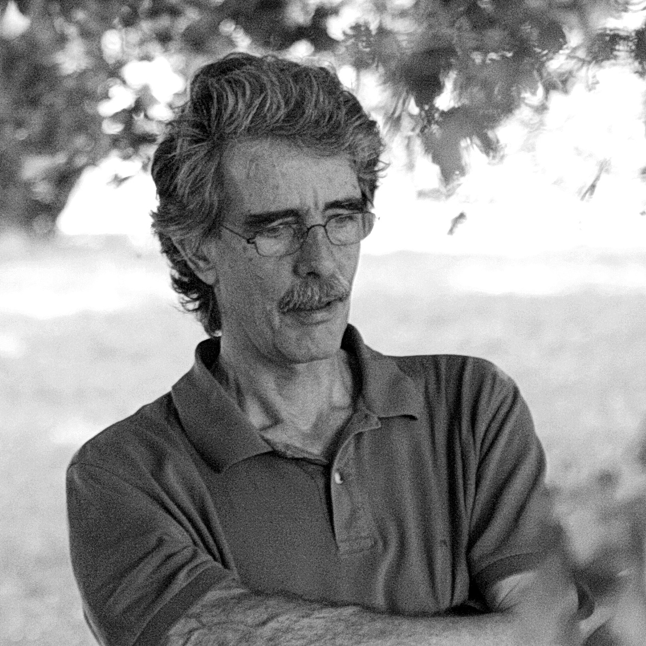 Photograph of Prof Jean Gruenberg, Geneva, June 2007